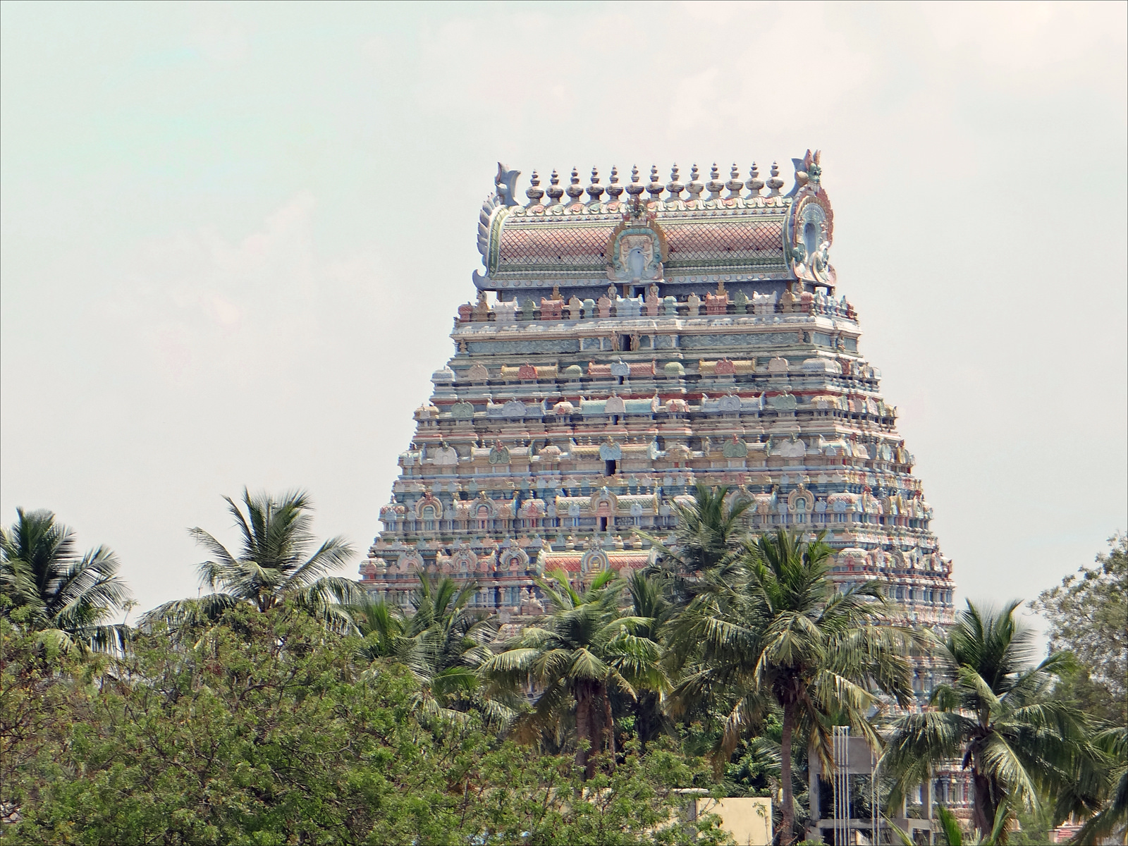 Spire of the Srirangam temple, Vaishnavism Tamil Nadu India 2014